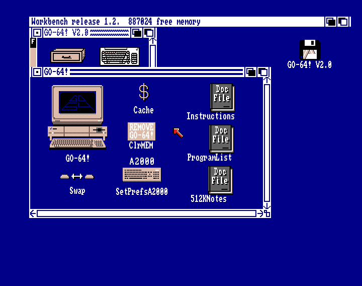 The GO-64! version 2.0 disk contents, as loaded on an Amiga computer